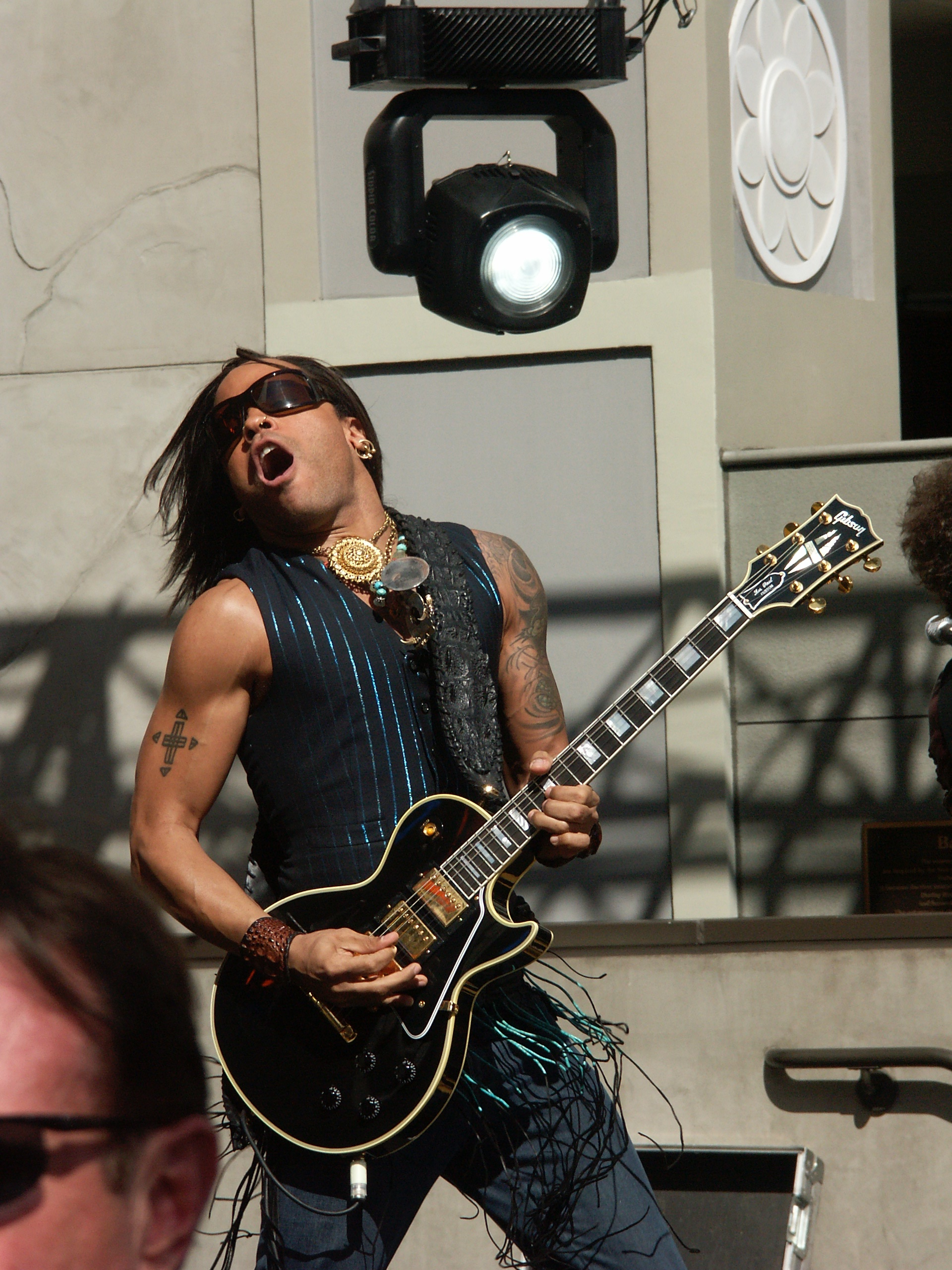 Lenny Kravitz performing in the Hollywood and Highland Center in Hollywood, Los Angeles — for the "On Air with Ryan Seacrest" TV show.